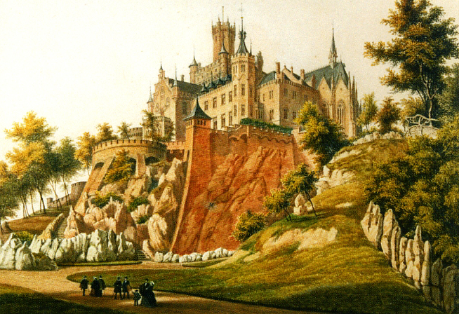 The Marienburg near Nordstemmen about 1864, watercolour